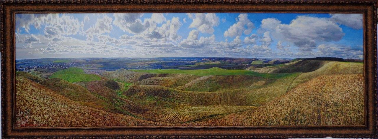 "Cheremshansky open spaces" canvas, oil, 69 x 210 cm.